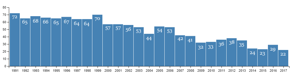 Population of Greenlandic settlement Kangerluk in 1991-2017